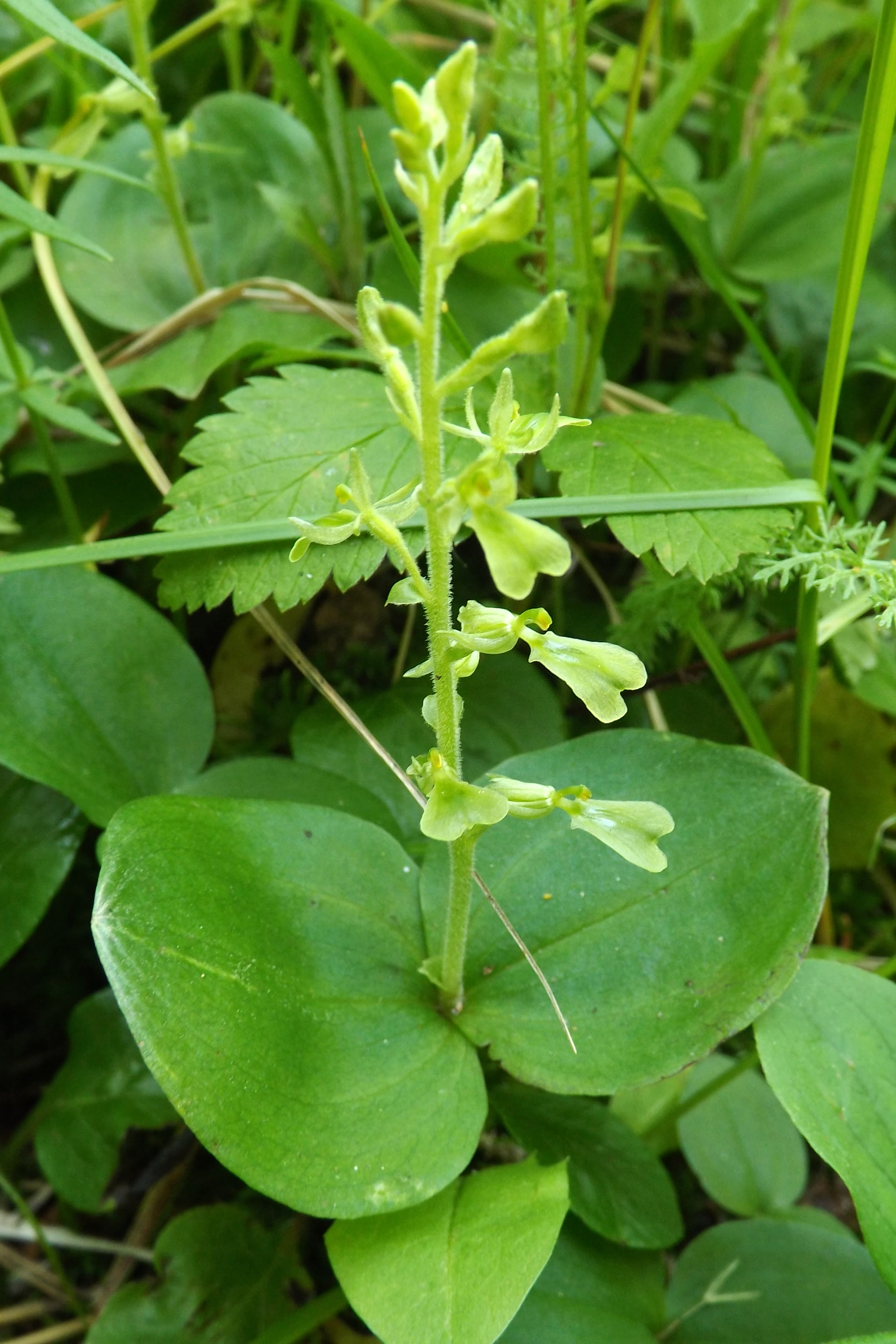 Listera convallarioides blooming in Englewood Springs Botanical Area. Northern Hills Ranger District.